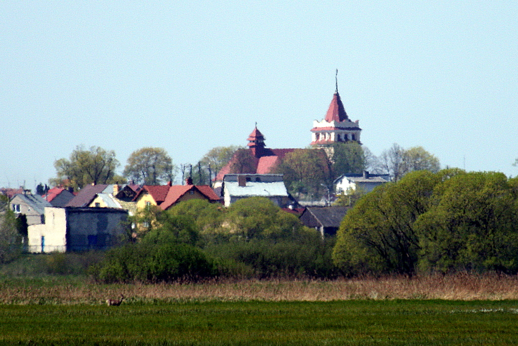 Panoramic view of Łapy, Poland